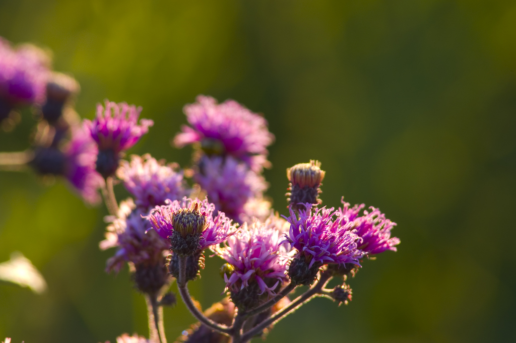 A thistle plant.